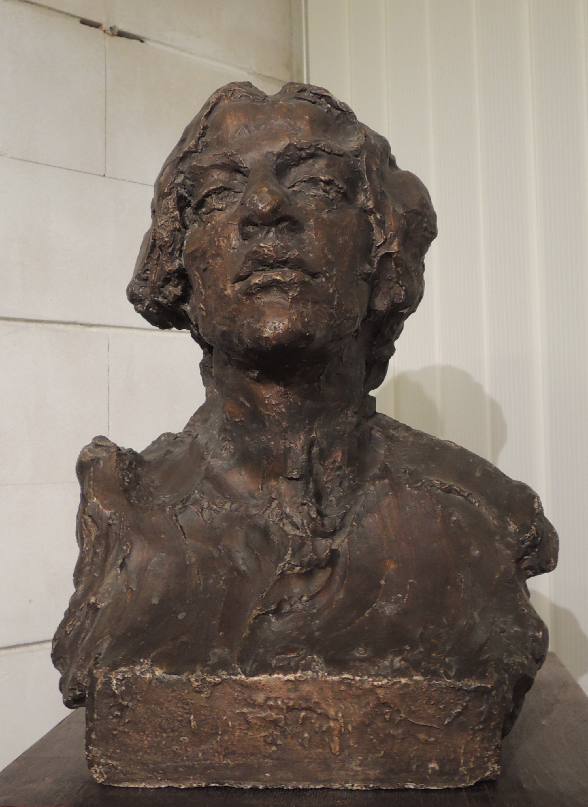 see filename. Own photo of work of sculptor Anna Golubkina (1864-1927)